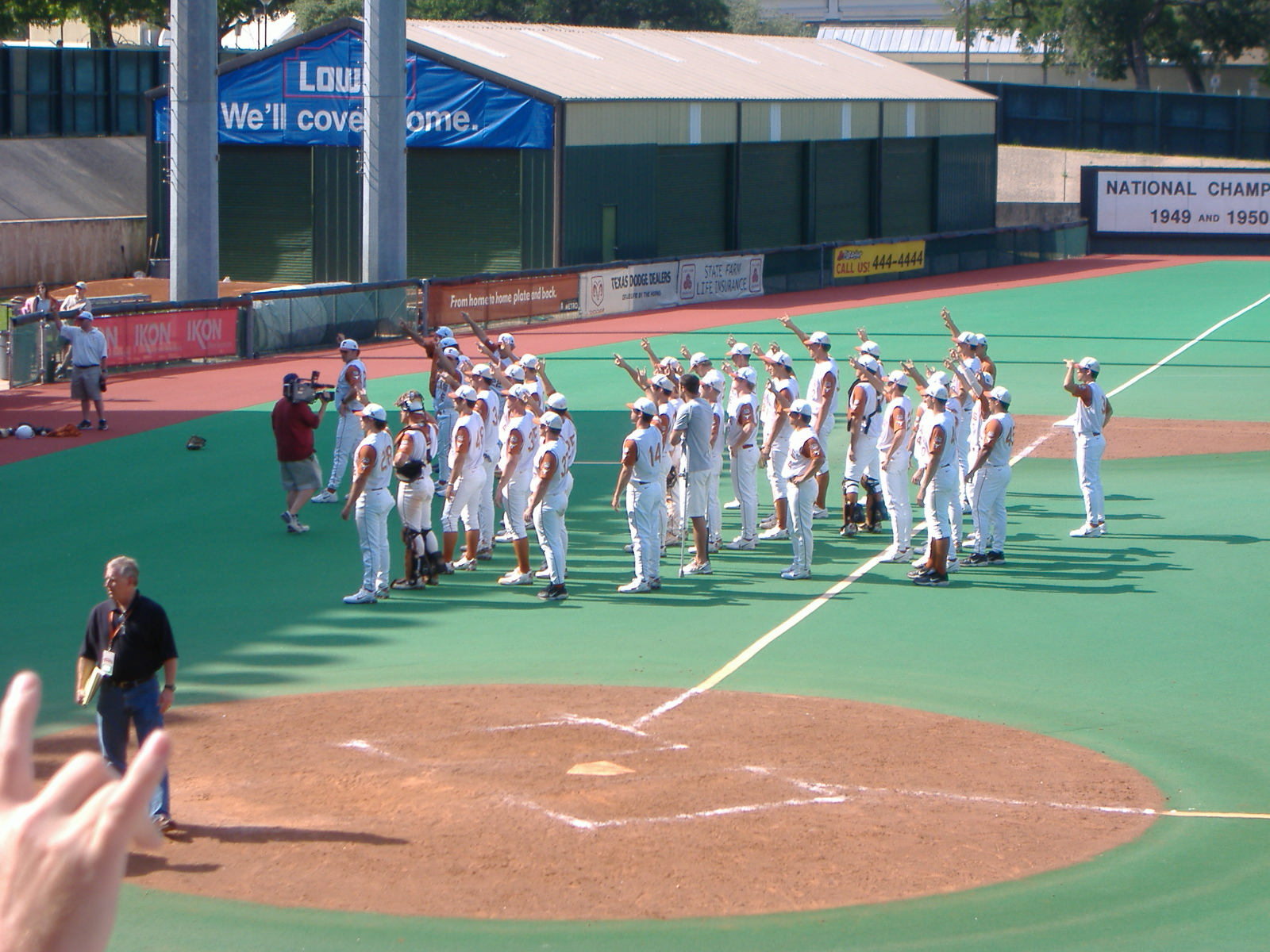 Eyes of Texas after the Game 3 of the 2005-06 Lone Star Showdown game against Texas A&M @ UFCU Disch-Falk Field